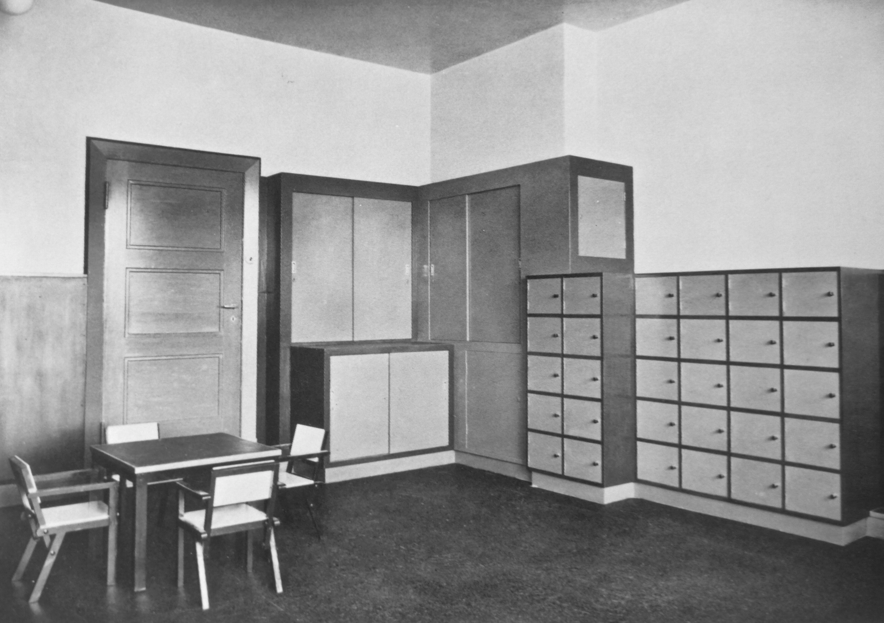 Interior design by Erich Dieckmann (1896–1944) of a room in a nursery near Neuruppin, Germany, in 1926